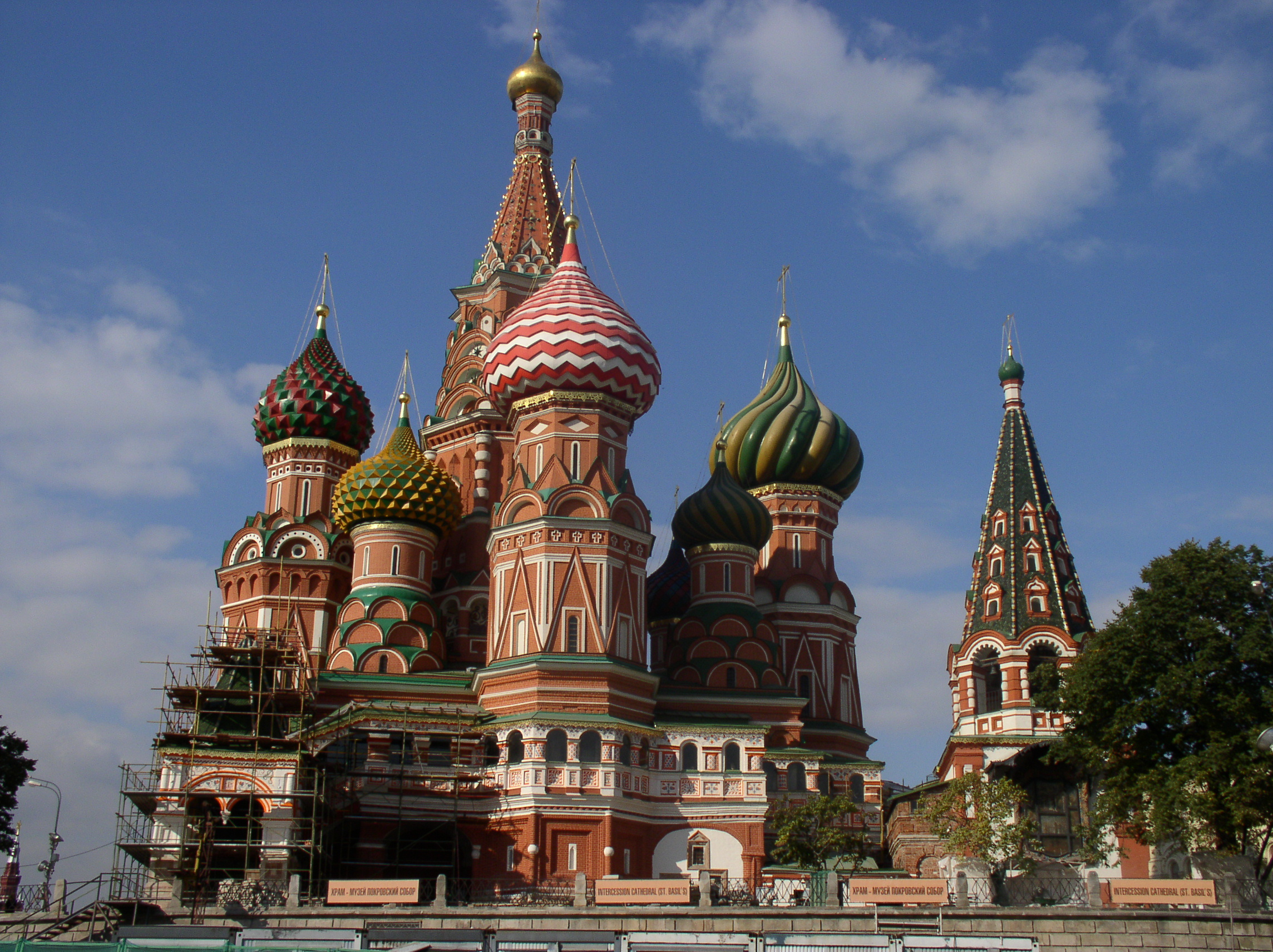 Saint Basil's Cathedral. Moscow, Russia.